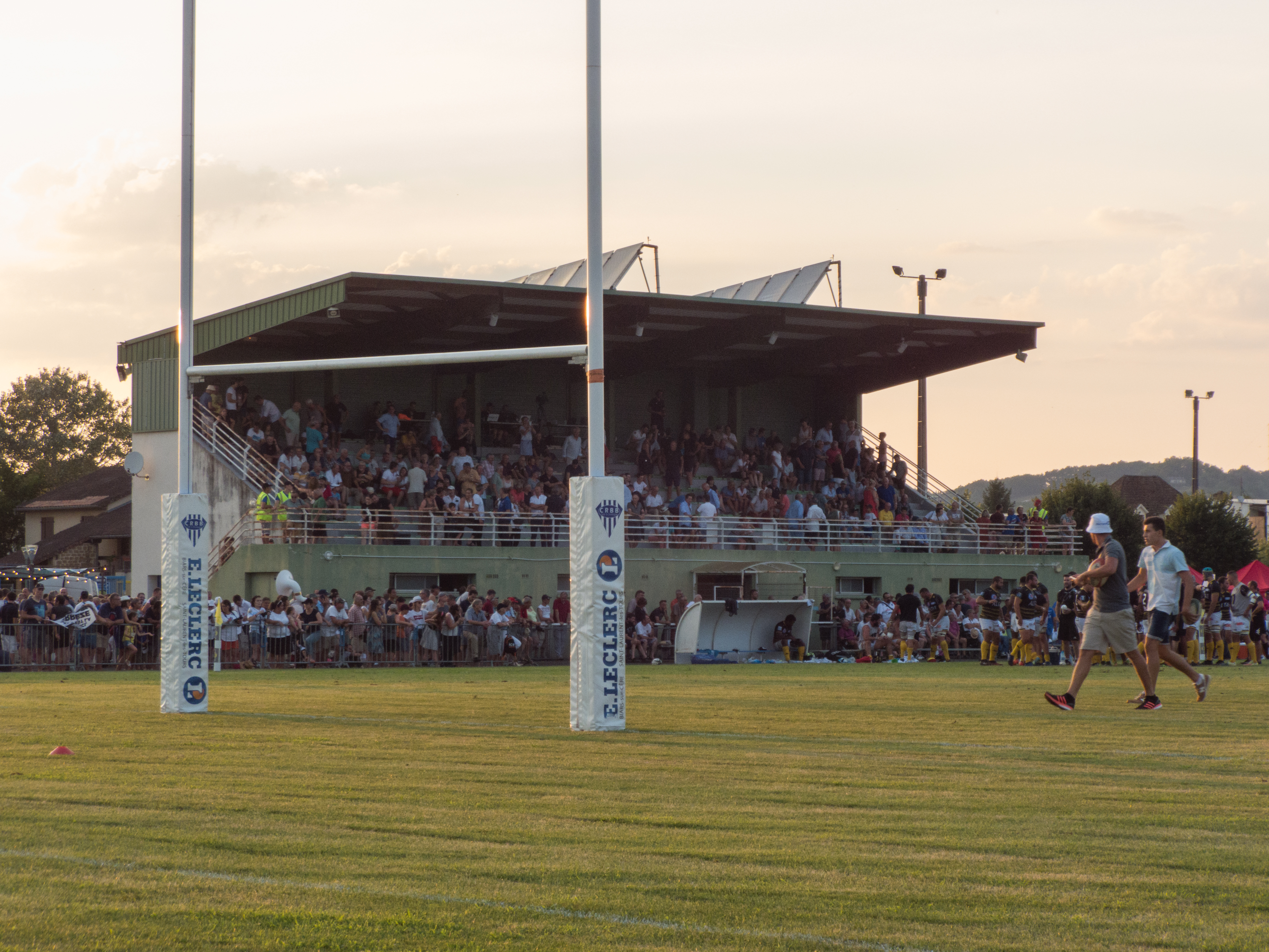 rugby union friendly match — 3 August 2018, stade municipal de Biars-sur-Cère. Match between: CA Brive — Stade Montois